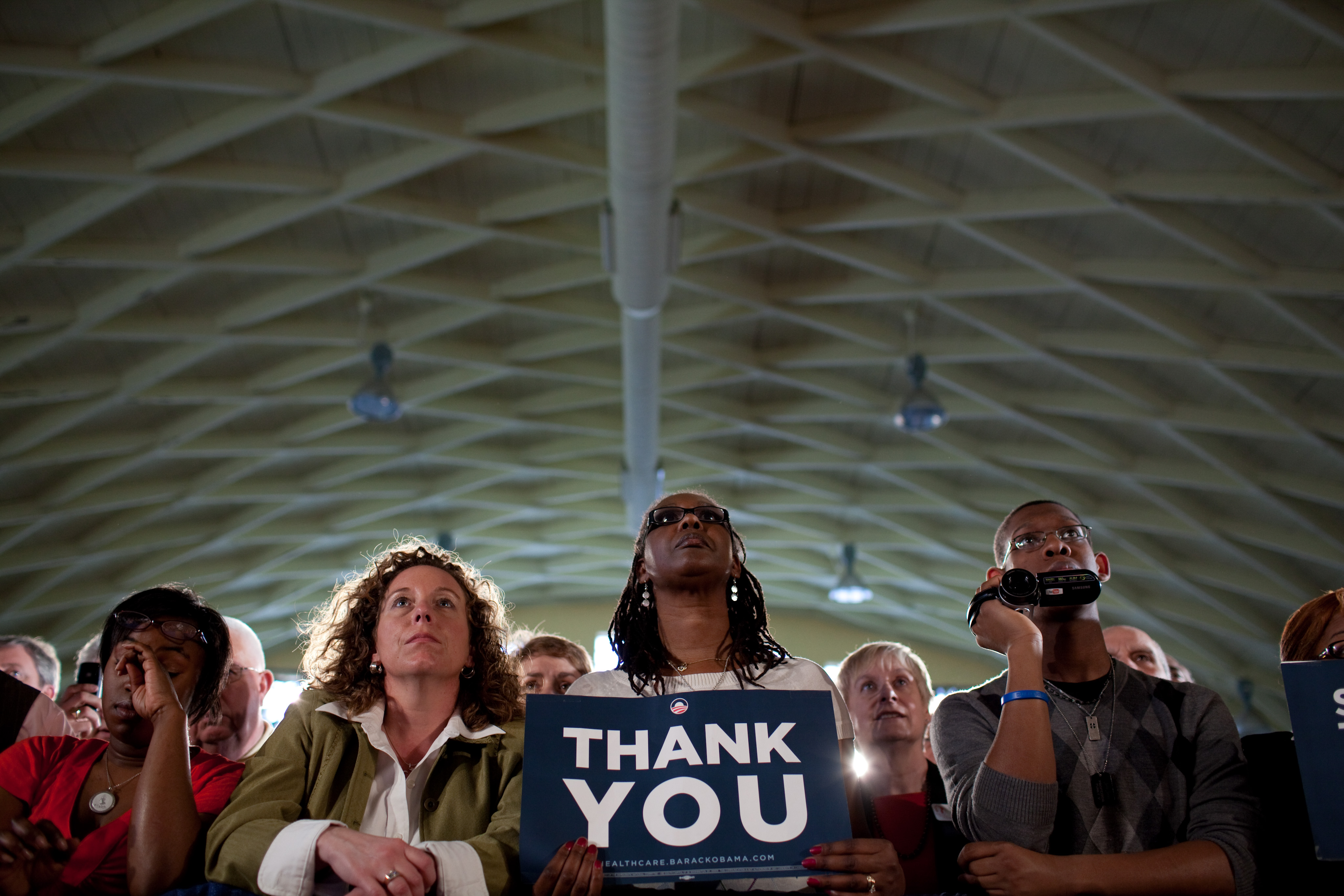 A member of the audience holds a "Thank You" sign during President Barack Obama's speech on medicare fraud and health care insurance reform at St. Charles High School in St. Charles, Mo., March 10, 2010.